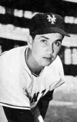 Hoyt Wilhelm of the New York Giants